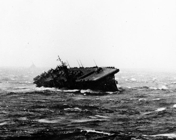 USS Langley (CVL-27) rolling sharply as she rides out a Pacific storm. Photographed from USS Essex (CV-9). The original photograph is dated 13 January 1945, but Morison, "History of U.S. Naval Operations in World War II", Vol. 13, captions this view as having been taken during the "Great Typhoon" of 18 December 1944.